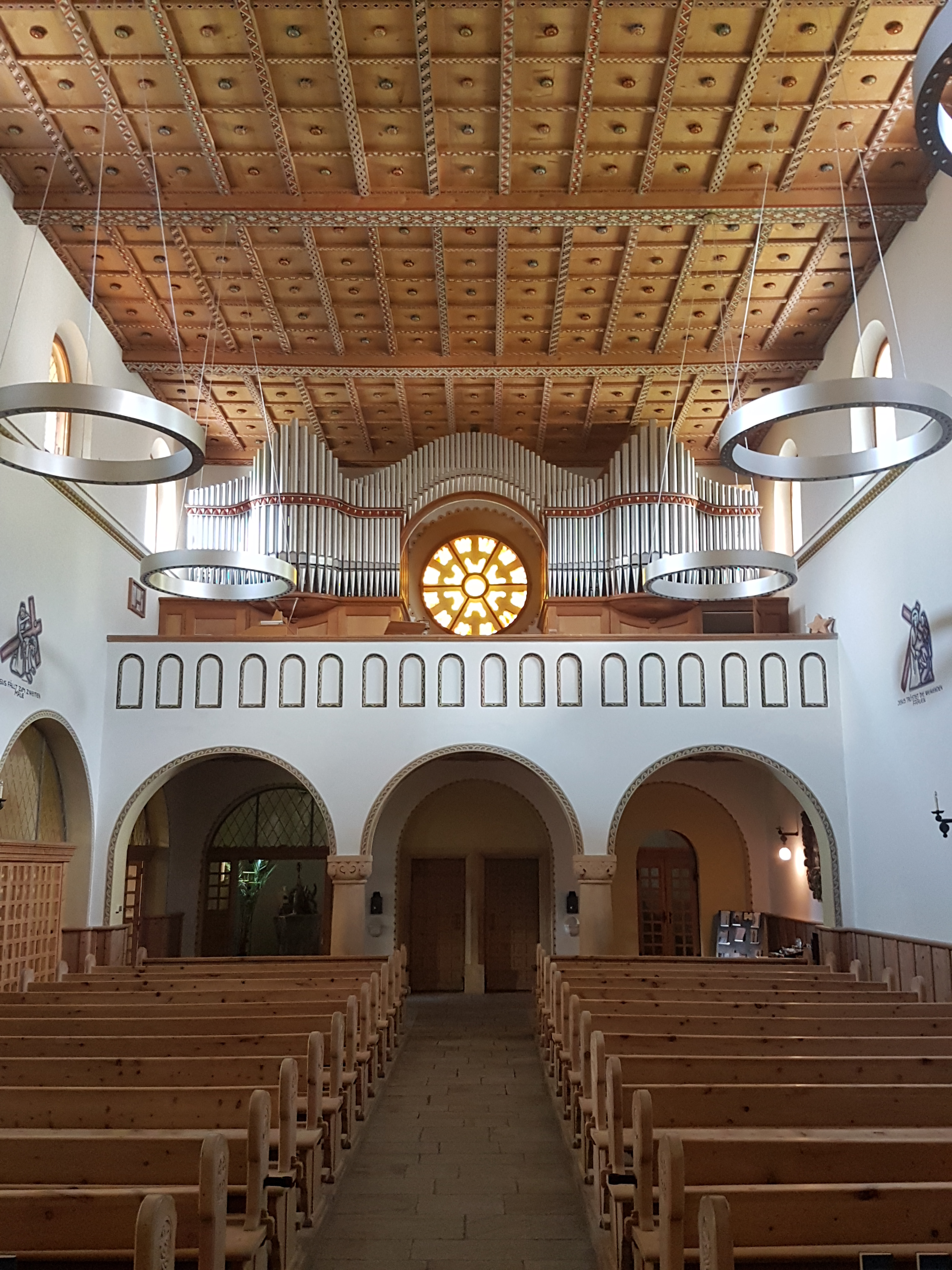 Baselgia catolica Herz-Jesu (catholic Church: Sacred Heart) in Samedan, Grisons, Switzerland. Ceiling and Galery.